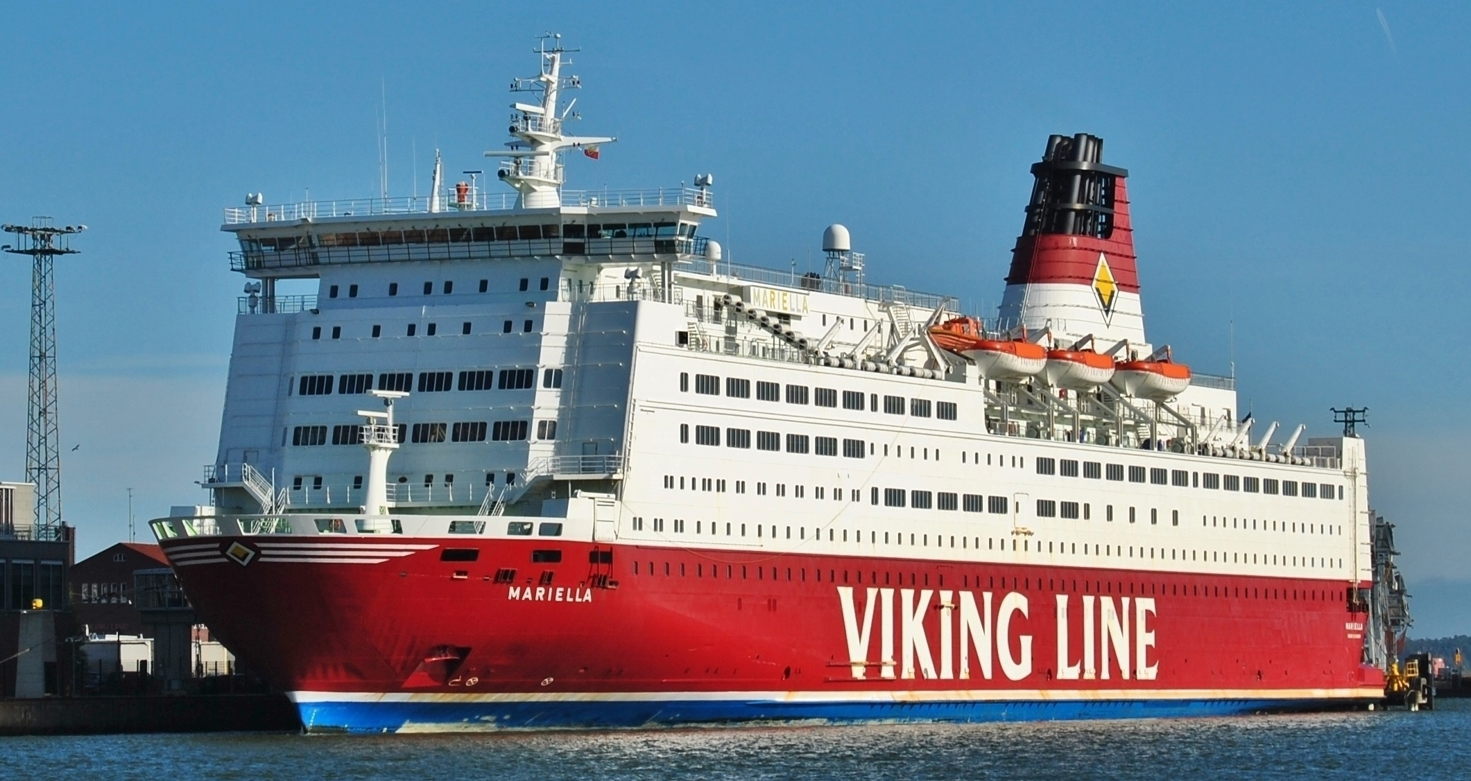 Viking Line (Mariella) at Katajanokka Harbour in Helsinki. Photo taken from Market Place